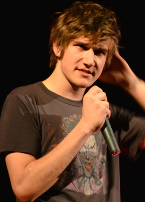 Bo Burnham performing in Pittsburgh, April 27, 2012. Derivative of this file